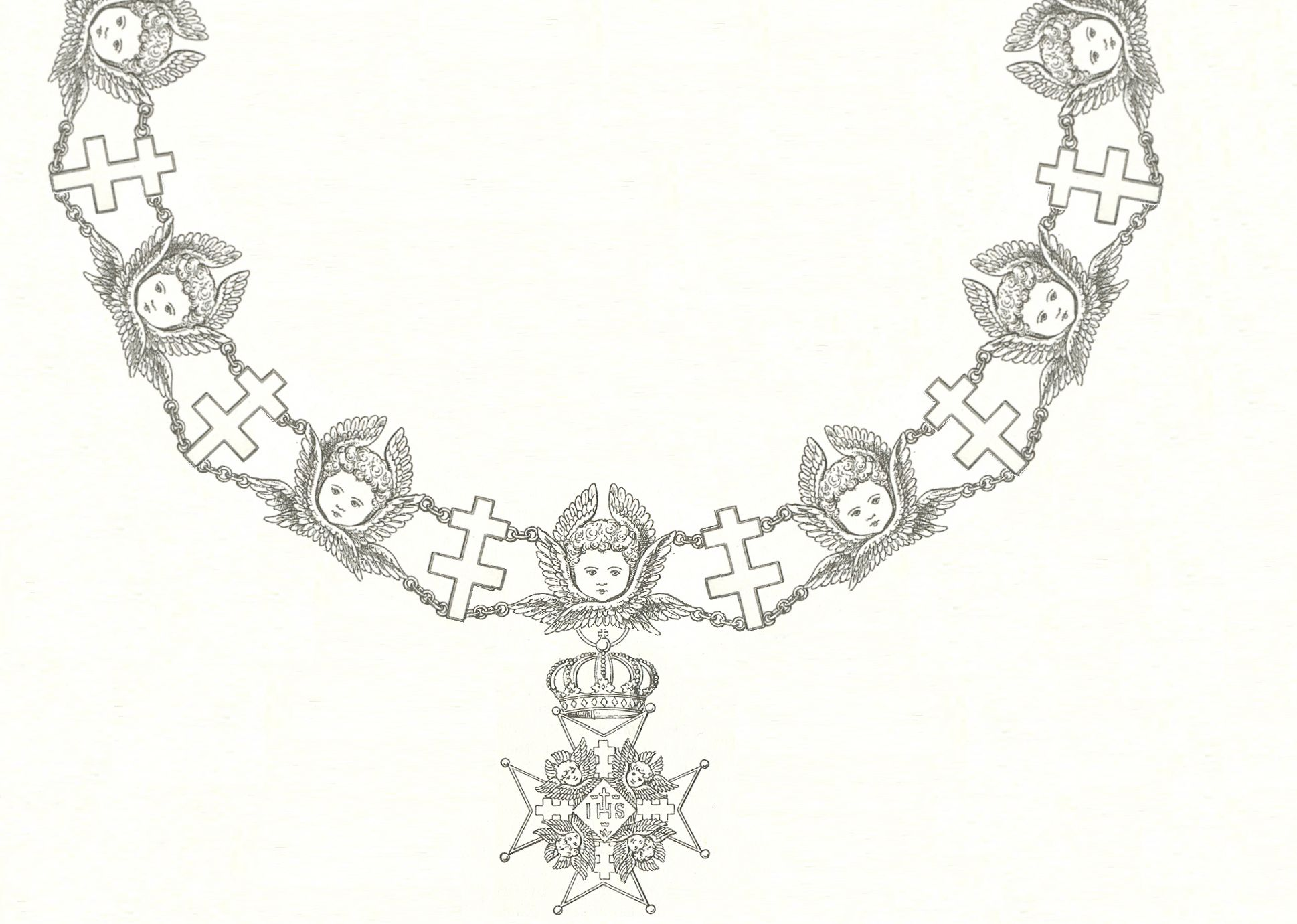 Collar of the Order of the Serapphim, Sweden